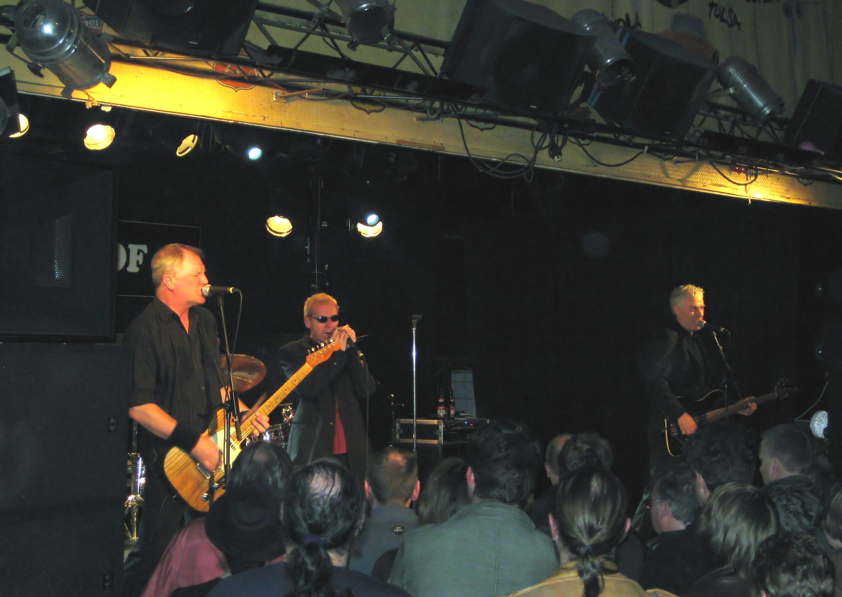 british band "Dr Feelgood", concert in club "Spirit of 66", Verviers, Belgium.